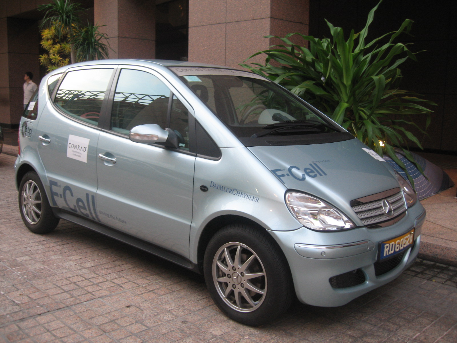 Mercedes-Benz Fuel cell A-Class (front).